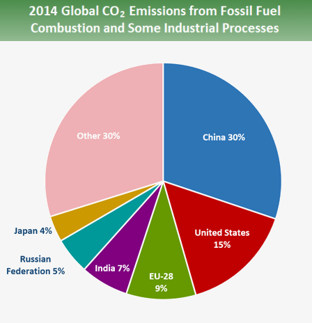 Global greenhouse gas emissions by country (US EPA)